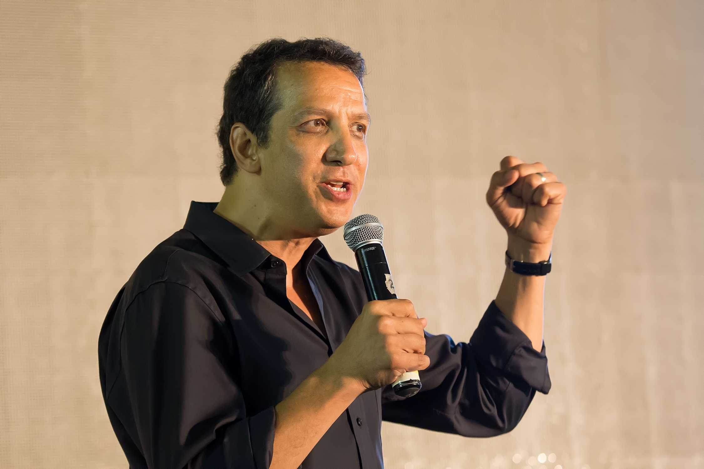 American cartoonist Peter Kuper at the Bangalore Comic Con 2014